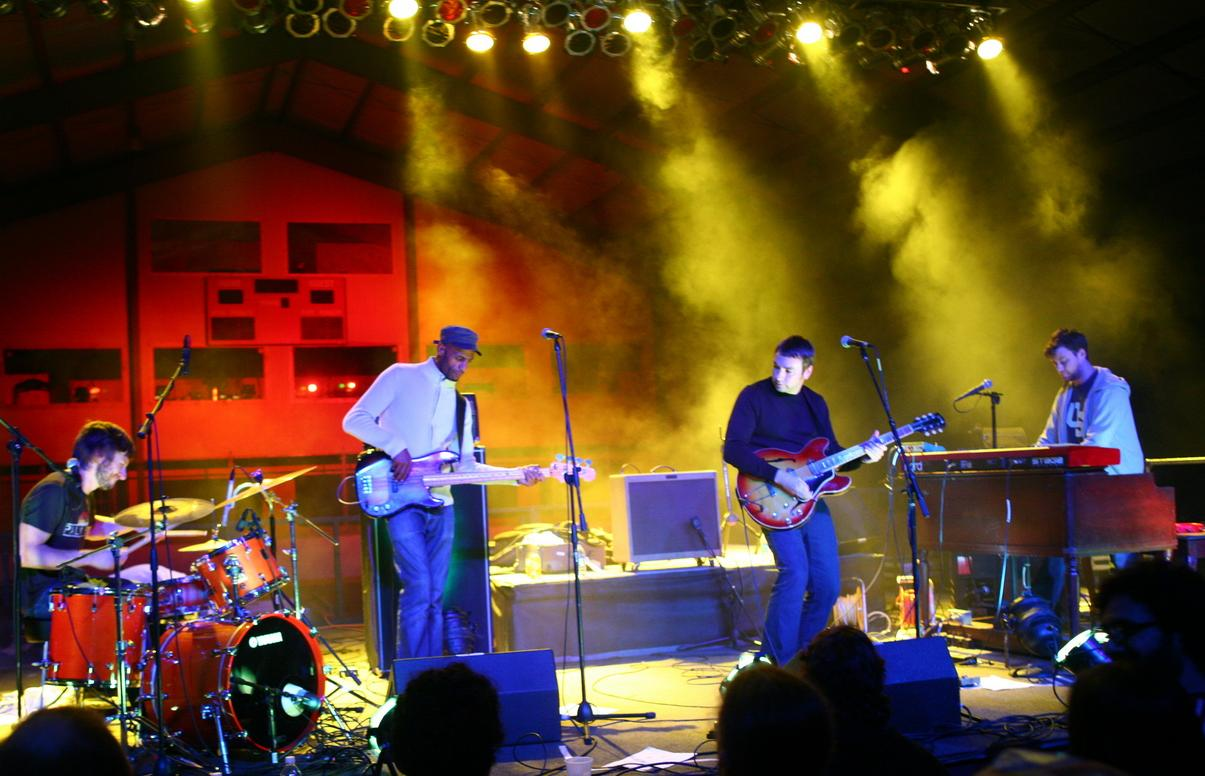 The New Mastersounds at Equifunk Festival, 2009 [Phrazz Pix].